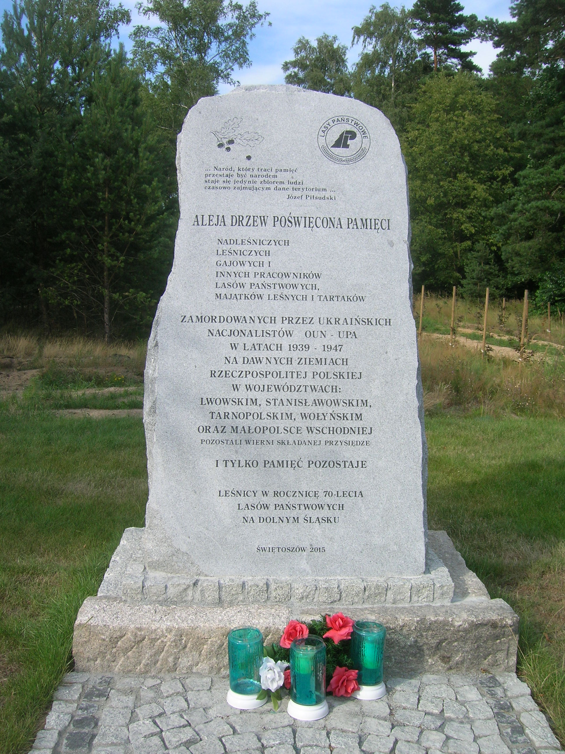 Monument to Polish foresters, victims of OUN-UPA in Świętoszów